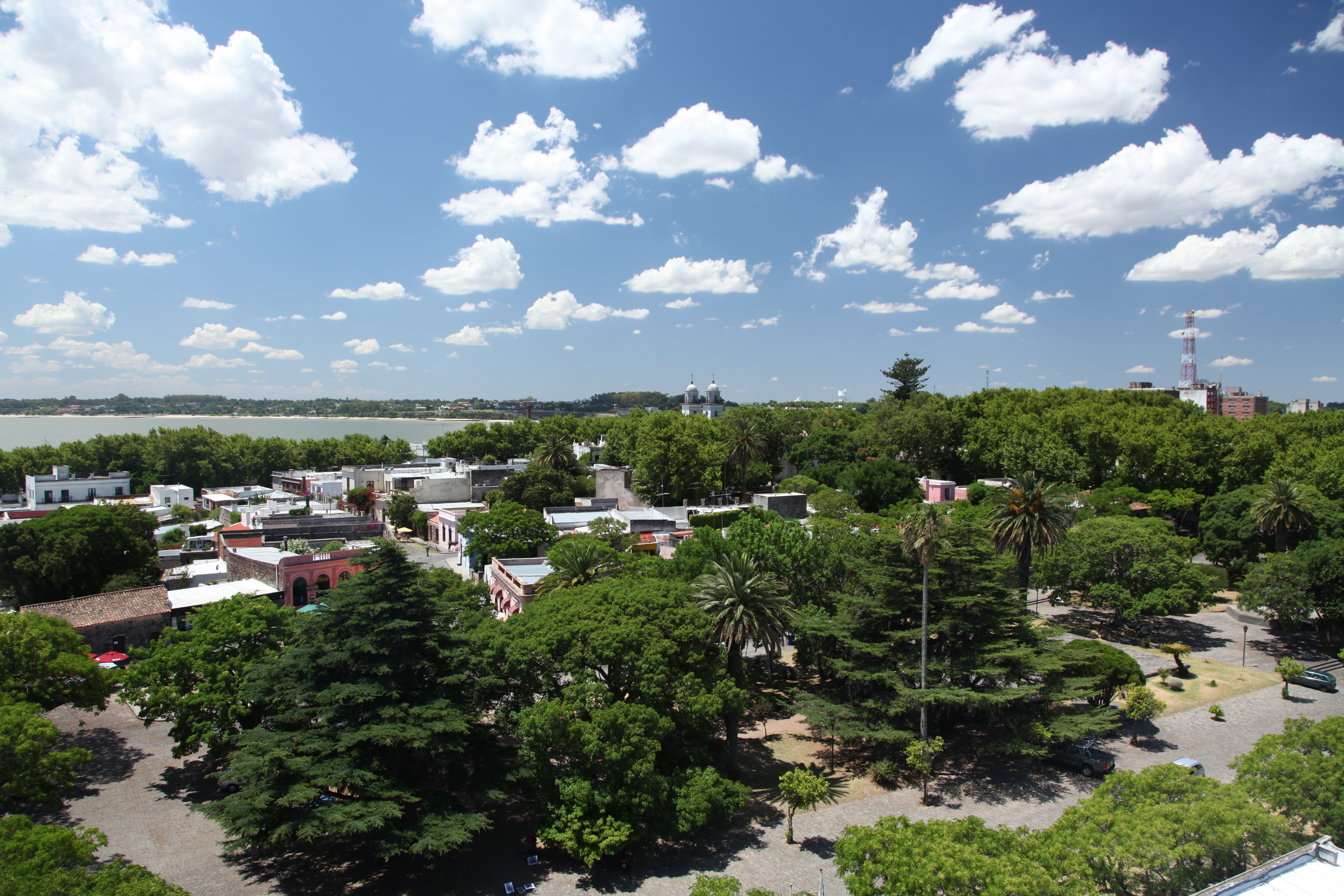 View from the lighthouse